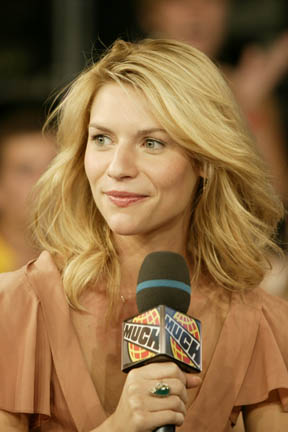 Claire Danes at MuchMusic, for the program MuchOnDemand, to promote the film Stardust